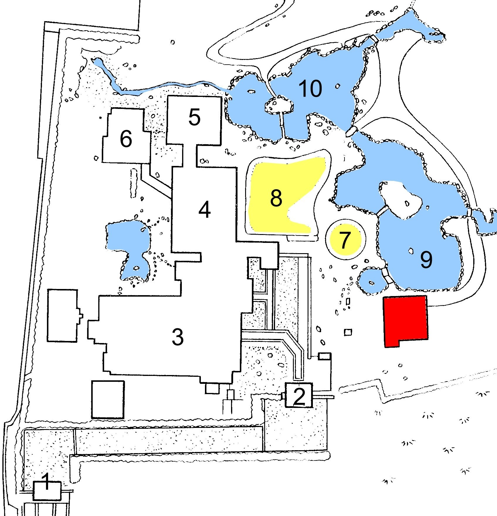 Layout of Ginkaku-ji